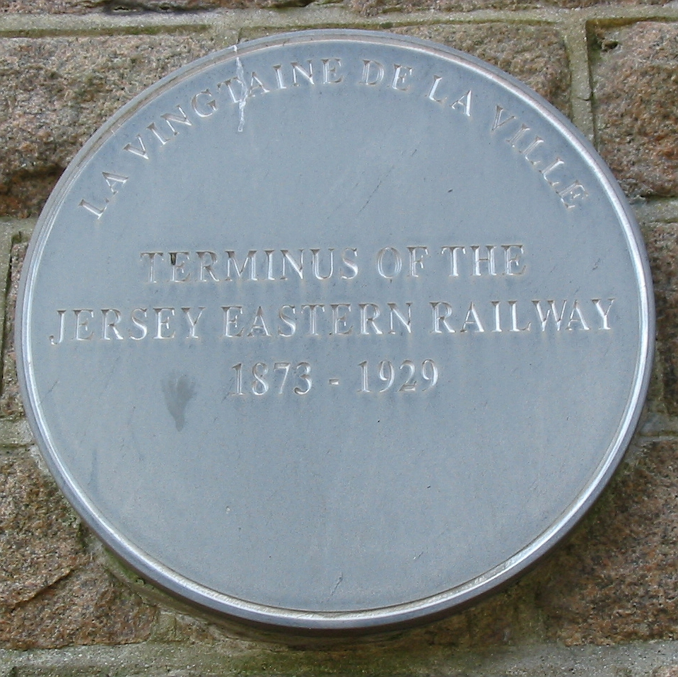 Jersey